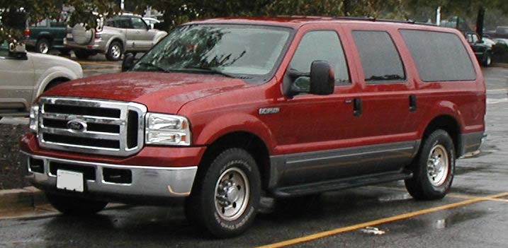 2005 Ford Excursion photographed in USA.